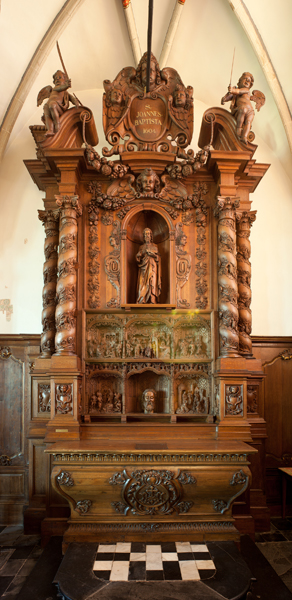 Hemelveerdegem, parochiekerk; Lierde, Oost-Vlaanderen, Belgium; ; ref: PM_083870_B_Hemelveerdegem; Sint-Jan-Baptistkerk; Photographer: Paul M.R. Maeyaert; © Paul M.R. Maeyaert; ; Cultural heritage; Europeana; Europe/Belgium/Hemelveerdegem; Europe/Belgium/Lierde